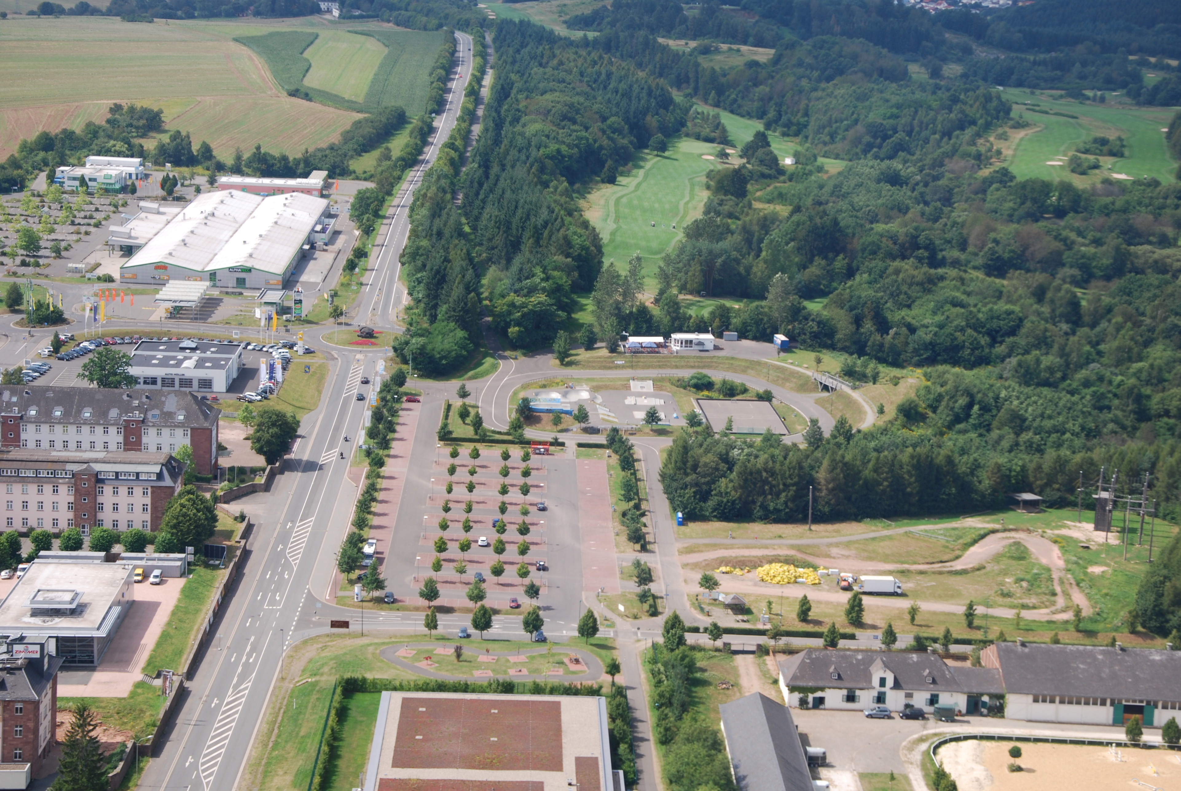 Aerial photo of the Wendelinuspark in St. Wendel